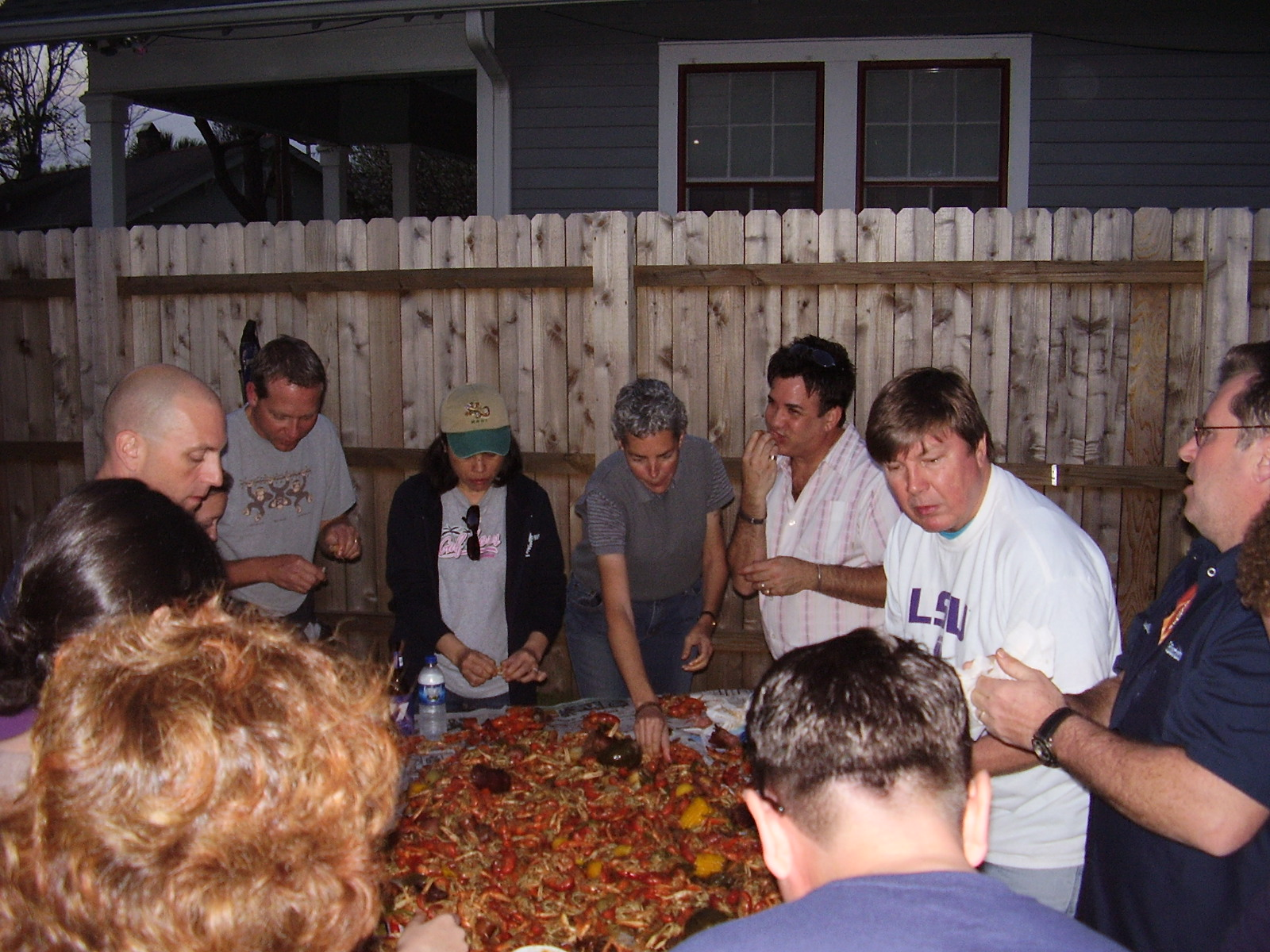 Monica gets picky